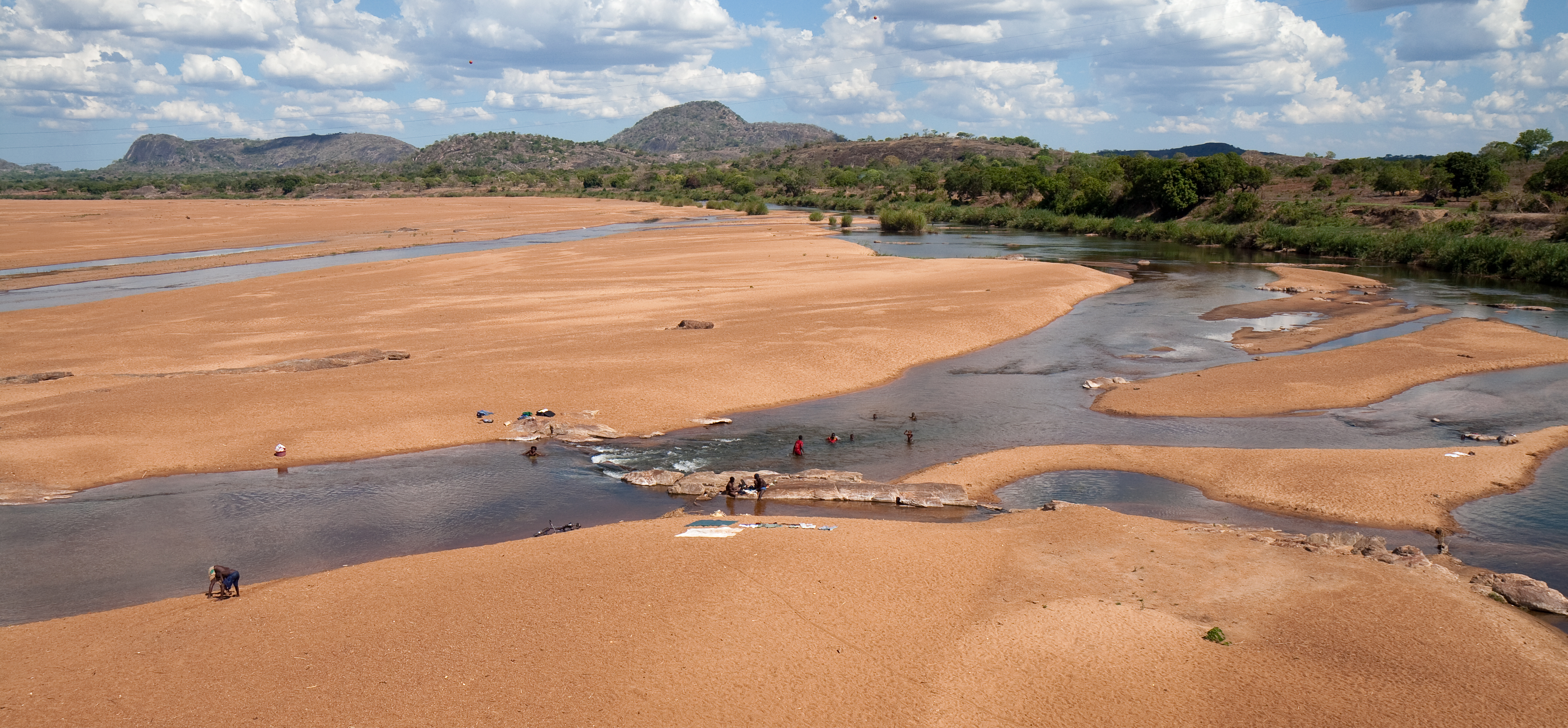 Lúrio river, Nampula province, Mozambique